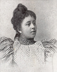 Photograph of Lutie Lytle